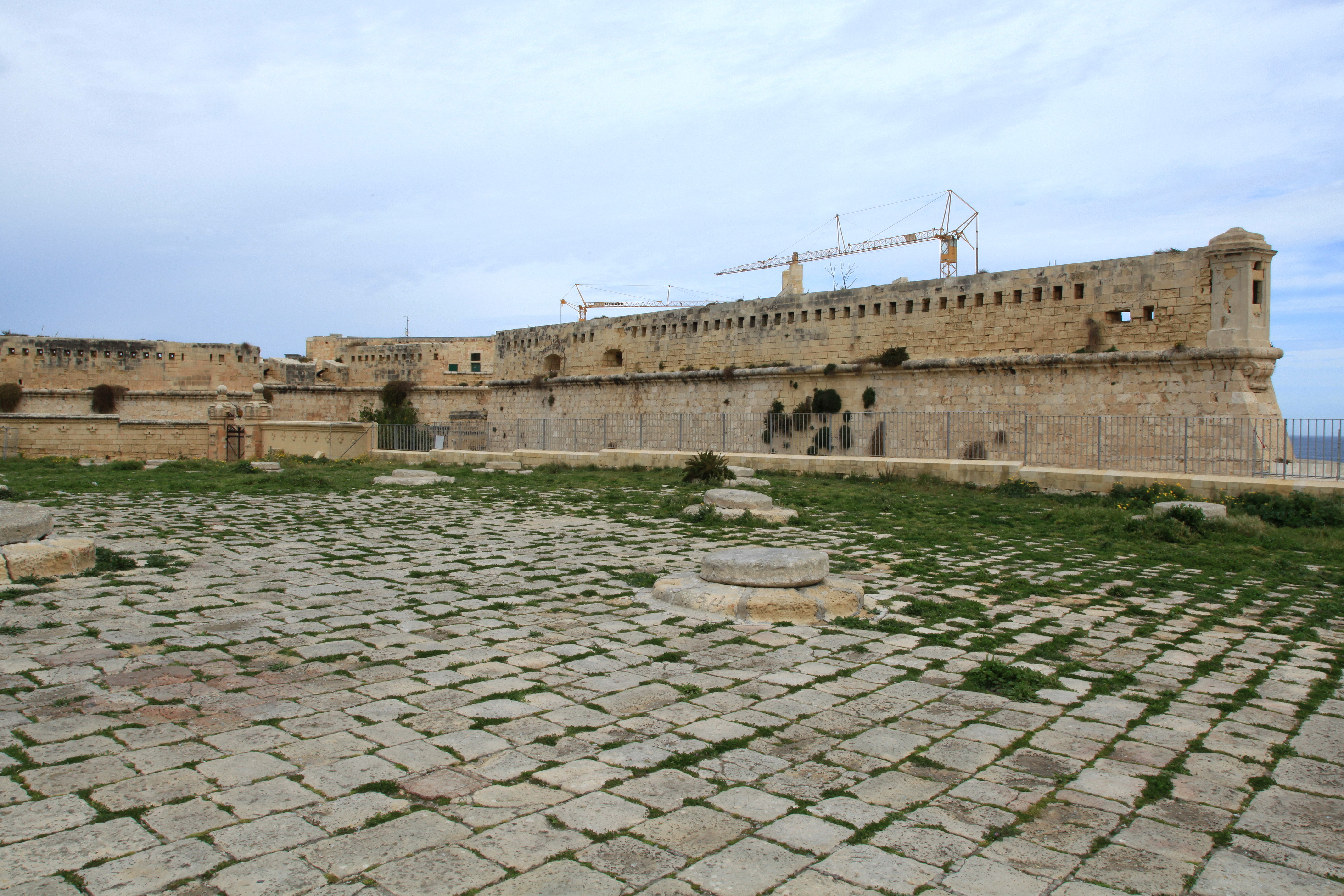 Fort Saint Elmo, Misraħ Sant' Iermu in Valletta, Malta